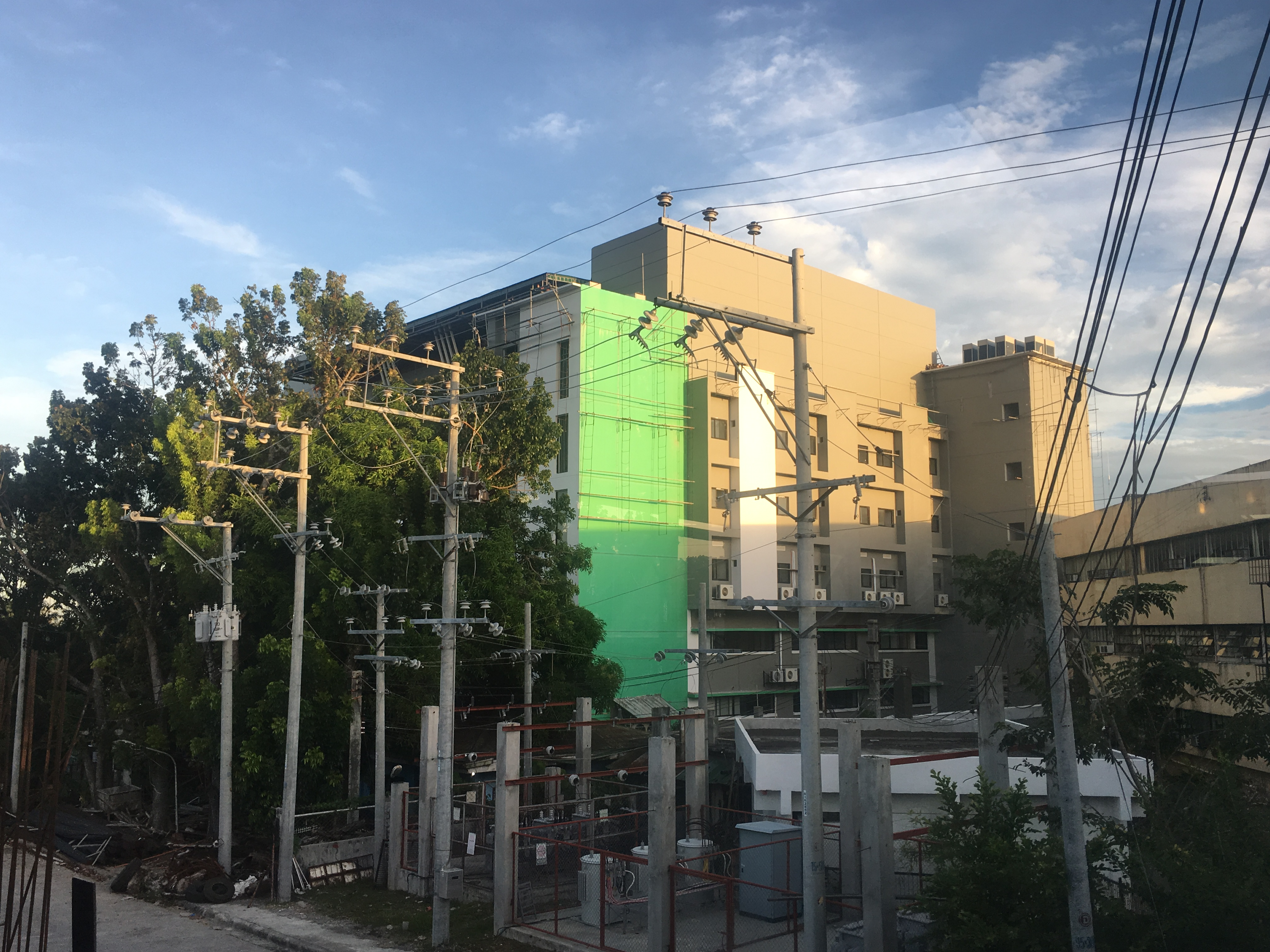 Cotabato Regional and Medical Center Modernization 7 storey Building